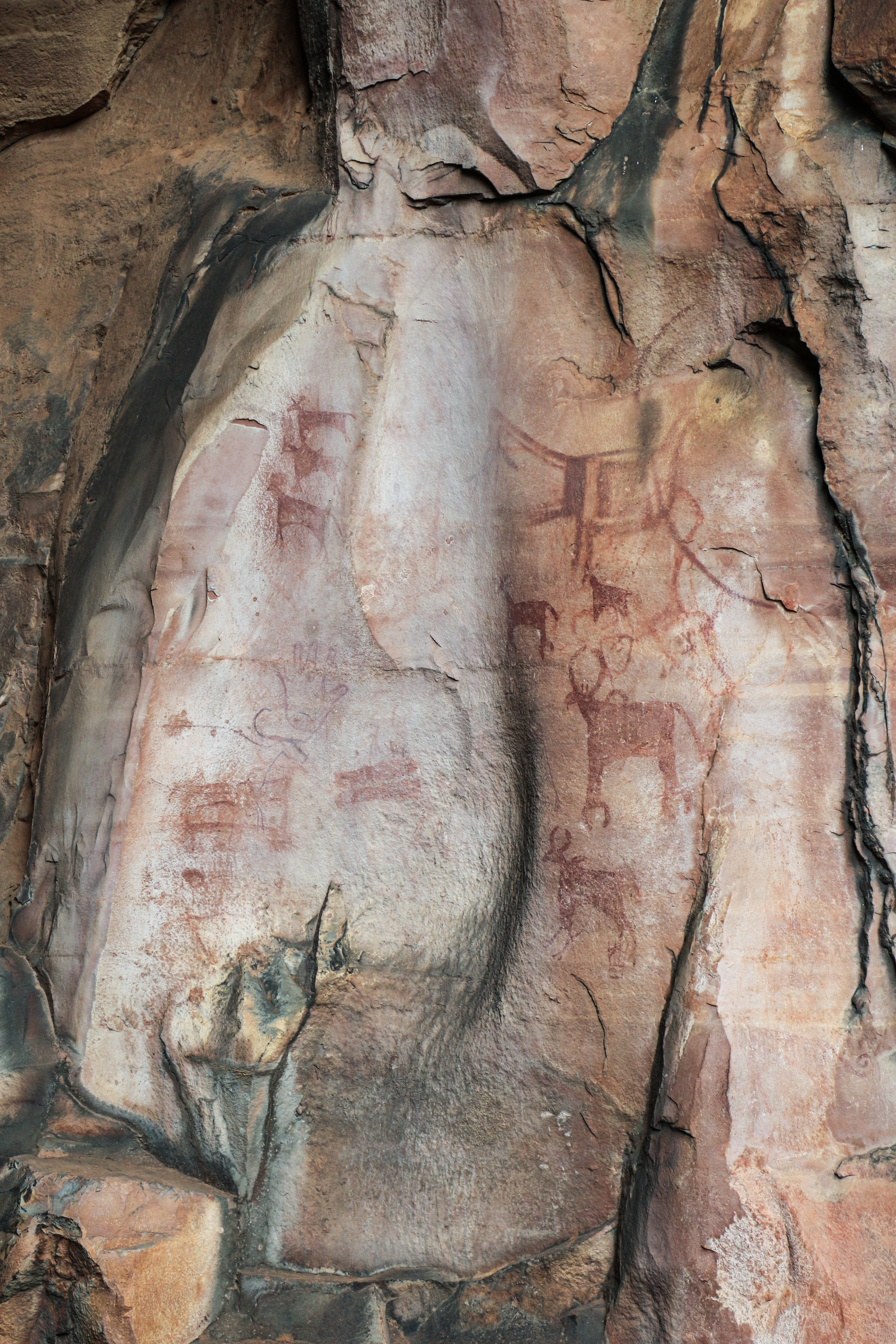 Paintings in Rock Shelter 3, Bhimbetka, India